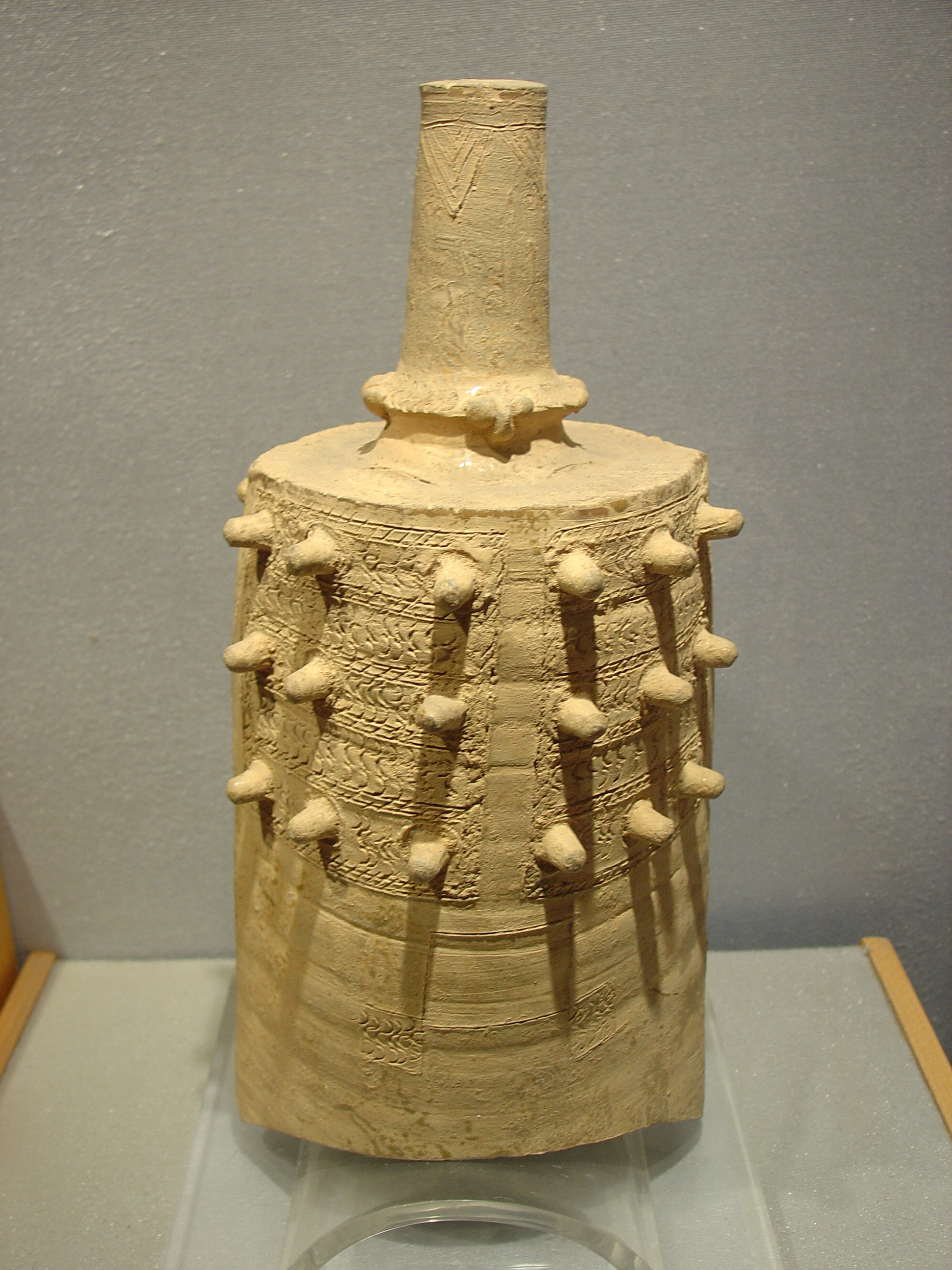 Porcelain Bell. Warring States period, 475-221 BC. Zhejiang Provincial Museum, Hangzhou